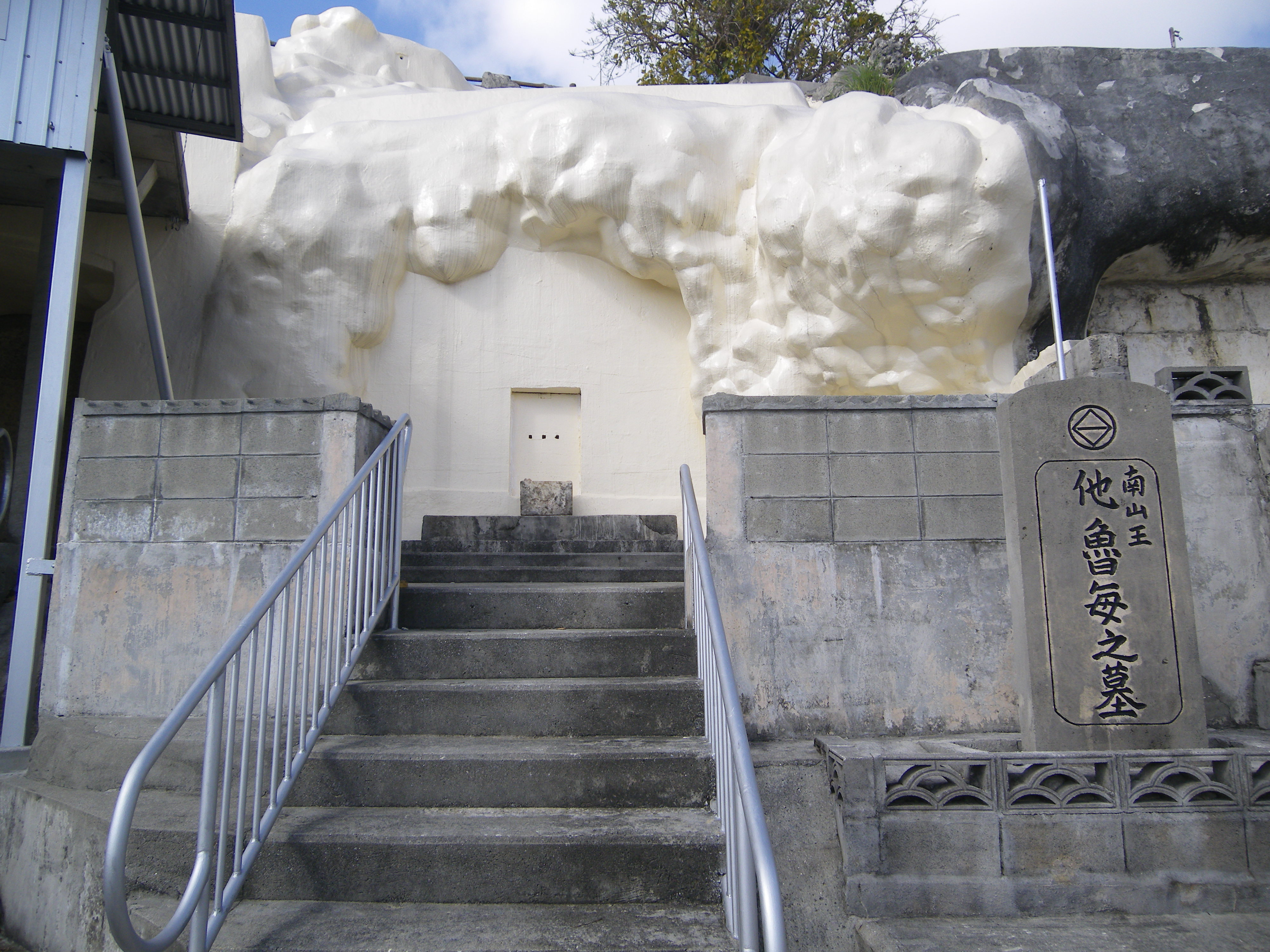 Tomb of Tarumī, the last king of Nanzan Kingdom, located in Itoman City, Okinawa Prefecture, Japan.